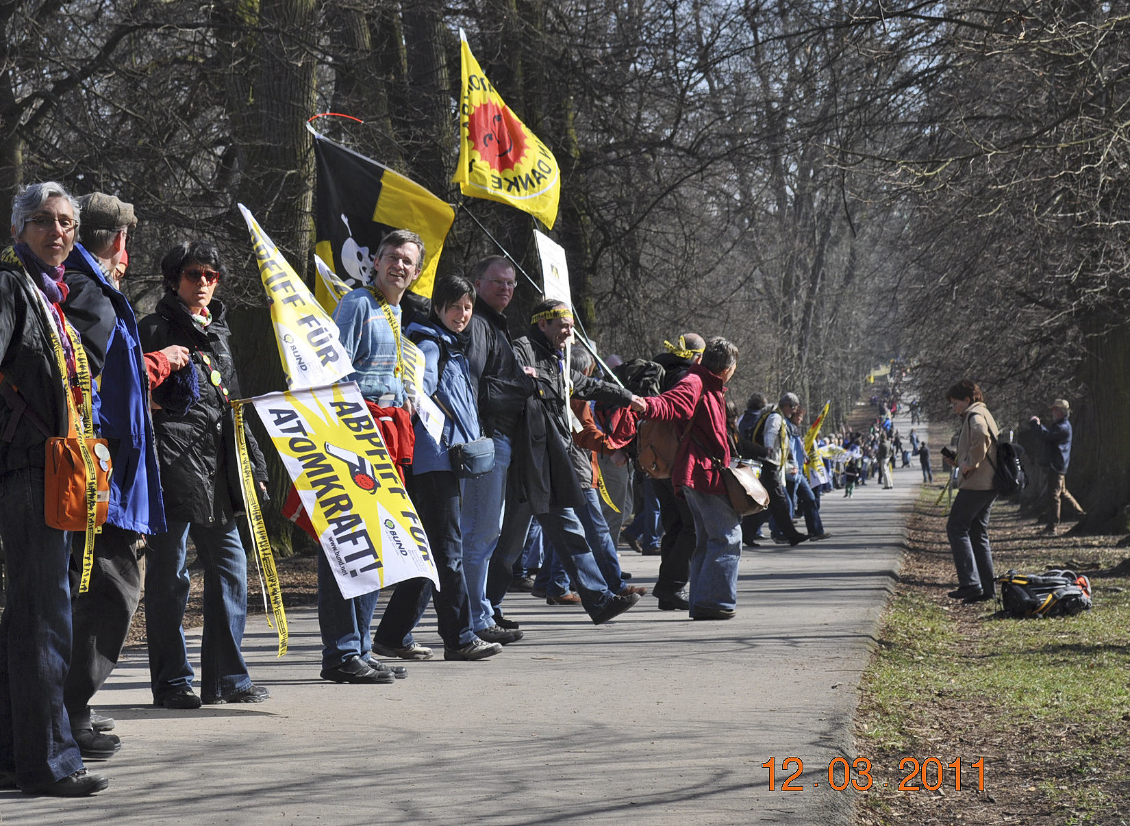 Part of a human chain between Stuttgart and atomic reactor Neckarwestheim for protesting against nuclear energy on the 11th of March 2011.